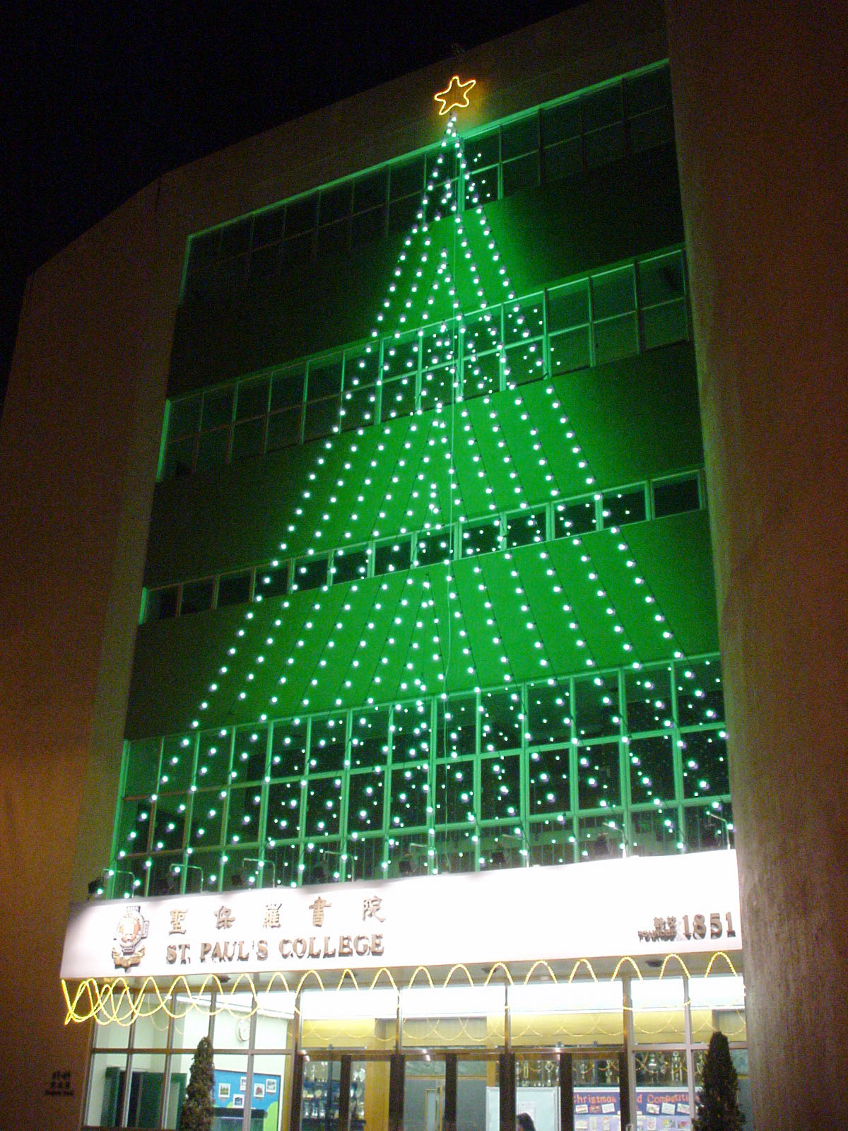 St Pauls College Main Entrance (Hong Kong) This photo was taken by me in 2003.